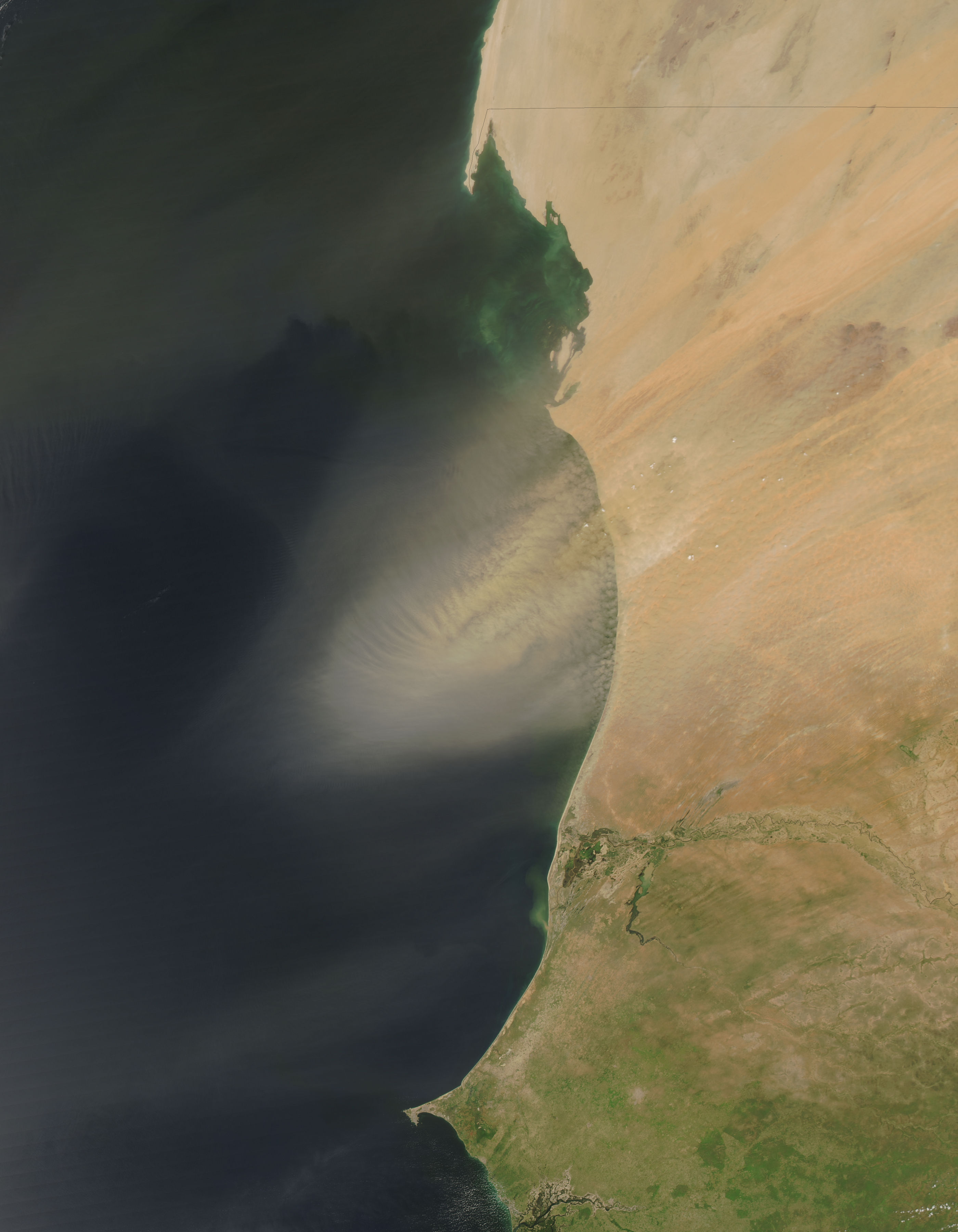 In this image, the dust varies in colour from nearly white to medium tan. The dust plume is easier to see over the dark background of the ocean, but the plume stretches across the land surface to the east, as well. The dust plume’s structure is clearest along the coastline, where relatively clear air pockets separate distinct puffs of dust. West of that, individual pillows of dust push together to form a more homogeneous plume. Near its south-west tip, the plume takes on yet another shape, with stripes of pale dust fanning out toward the north-west. Occasional tiny white clouds dot the sky overhead, but skies are otherwise clear.